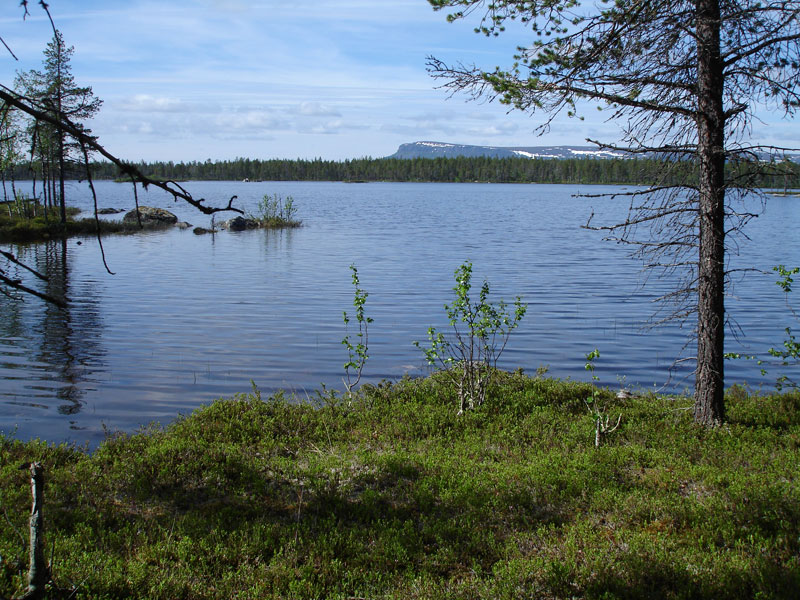 Lake Munkajávrre (Munkajaure) in Tjieggelvas nature reserve, Norrbotten county, Sweden.